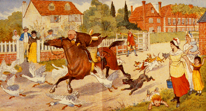 Illustration from John Gilpin (1878)